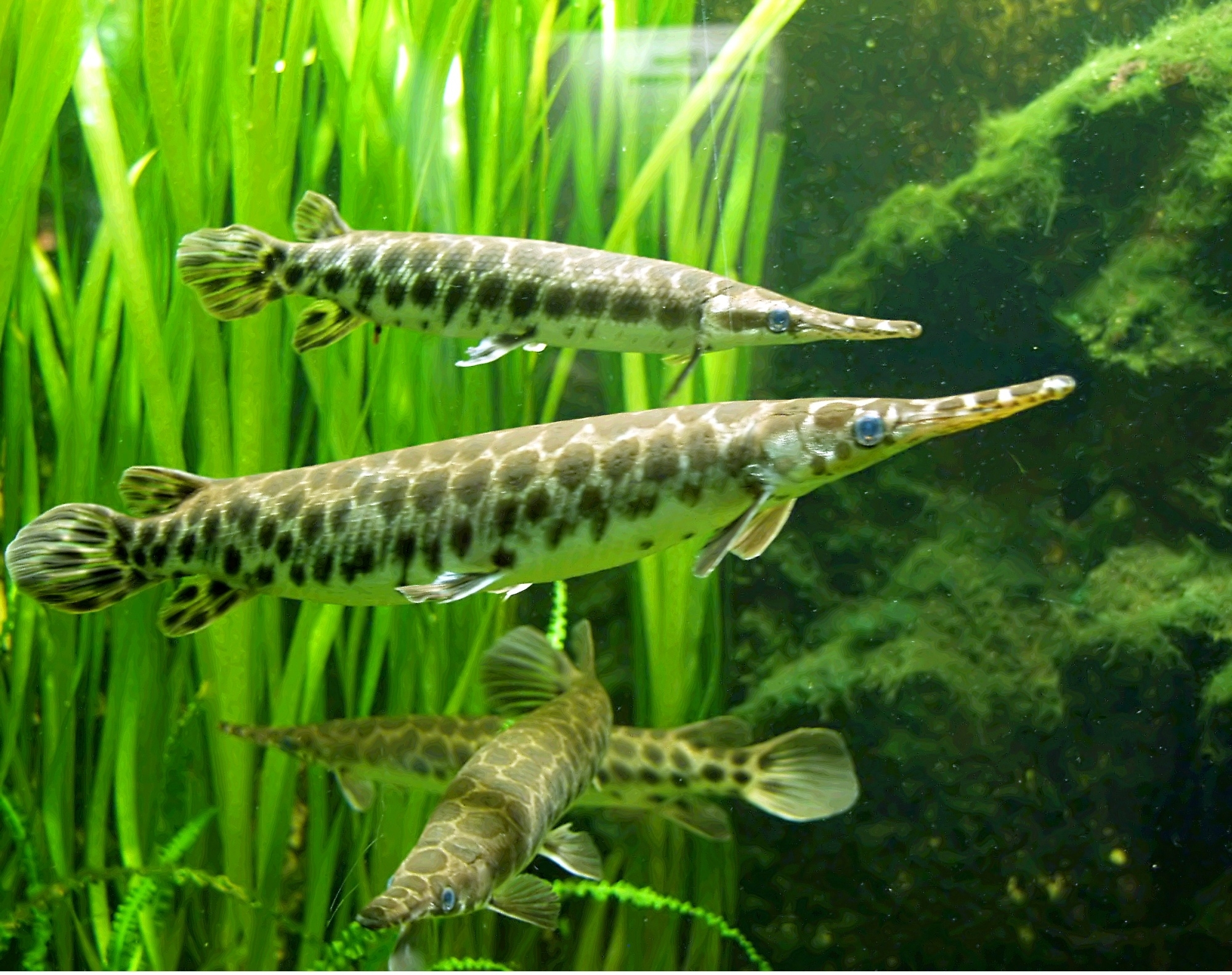 Lepisosteus platyrhincus at Aquazoo Löbbecke-Museum Düsseldorf